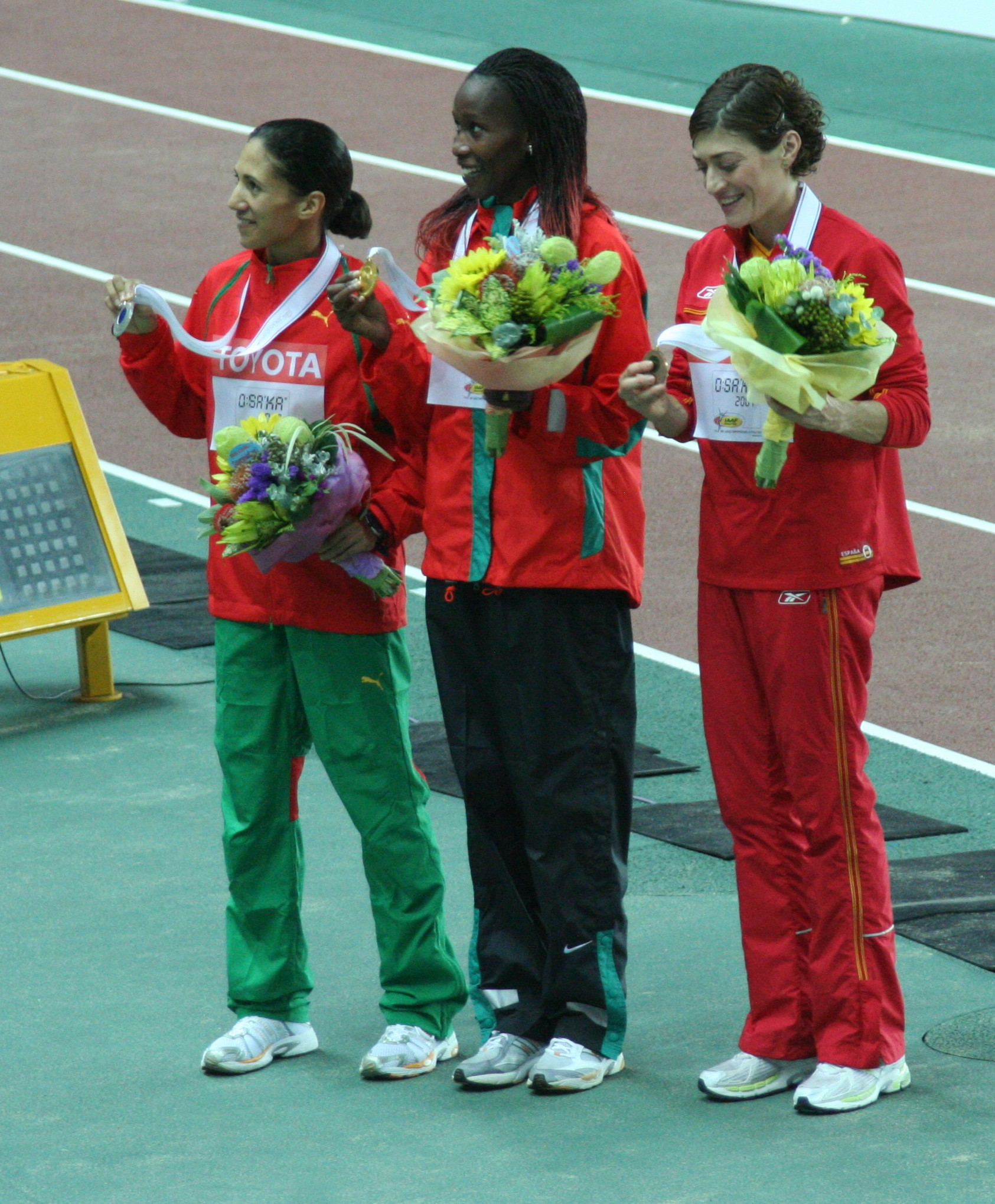 World Athletics Championships 2007 in Osaka - After the victory ceremony for the women's 800 metres, Hasna Benhassi (left, silver), Janeth Jepkosgei (middle, gold) and Mayte Martinez (right, bronze) are showing their medals